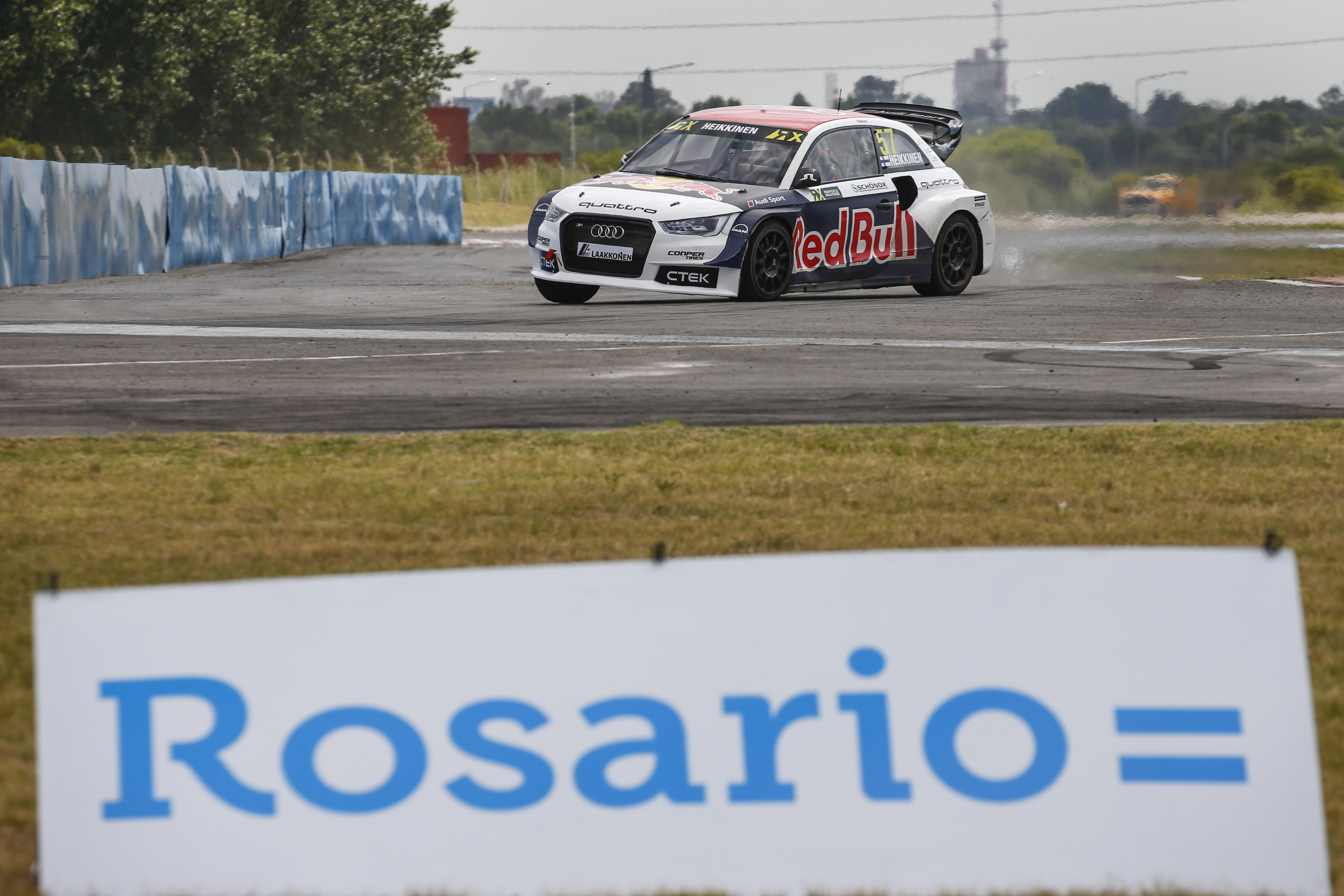 2016 FIA World RX Rallycross Championship / Round 12 / Rosario, Argentina / November 25 - 28, 2016 // Worldwide Copyright:Tony Welam/EKS/McKlein